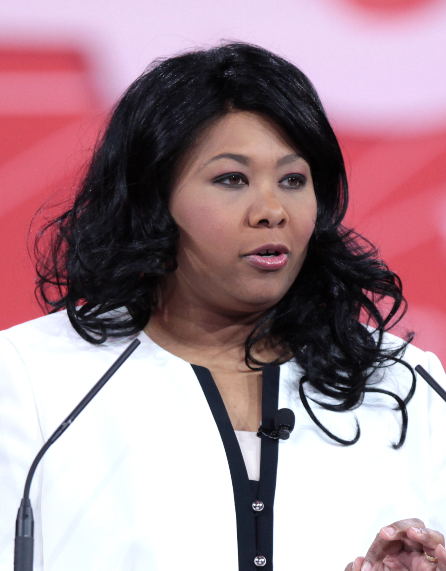 Jamila Bey at the 2015 Conservative Political Action Conference